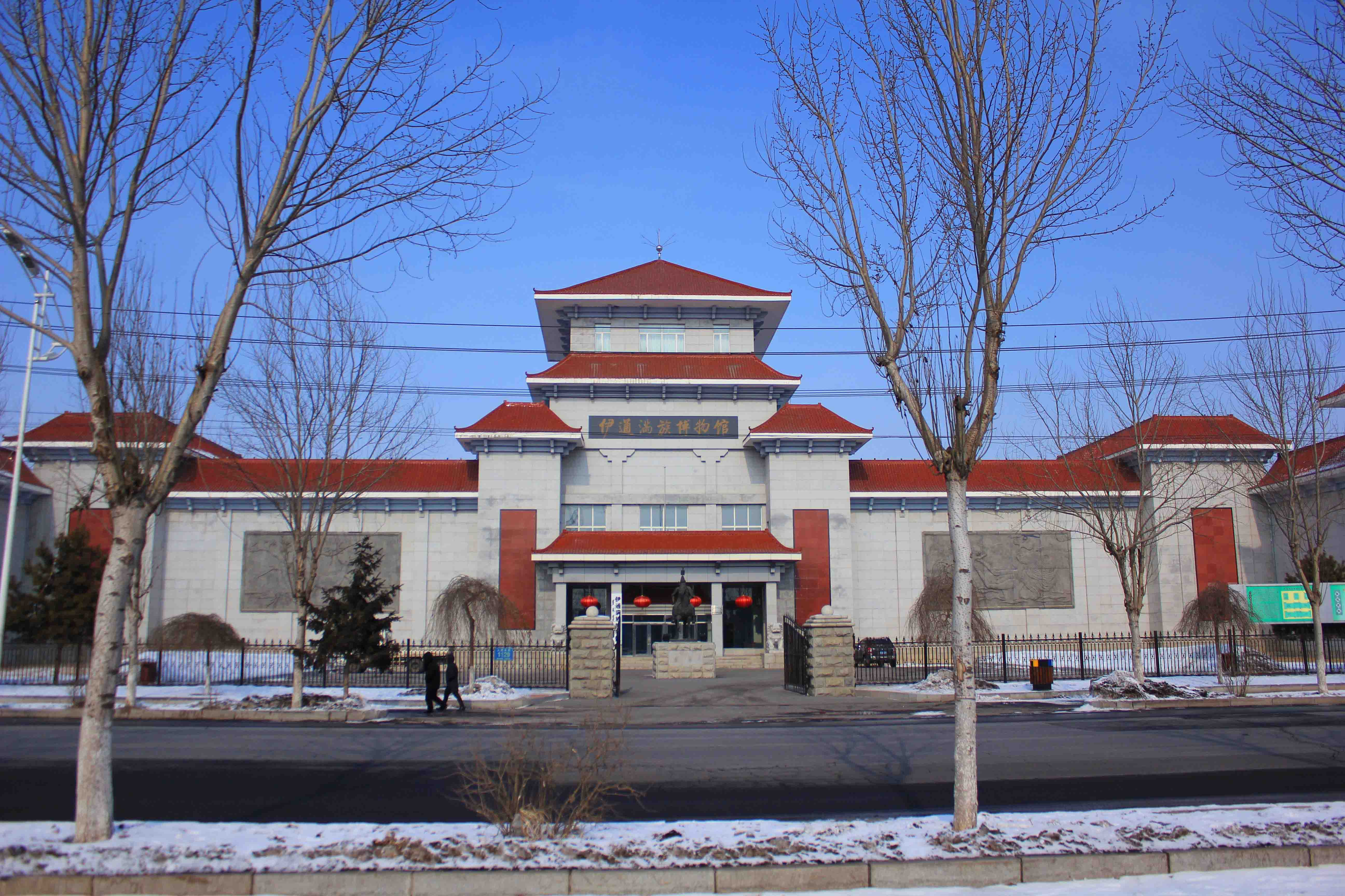 Yitong Man Nationality Museum